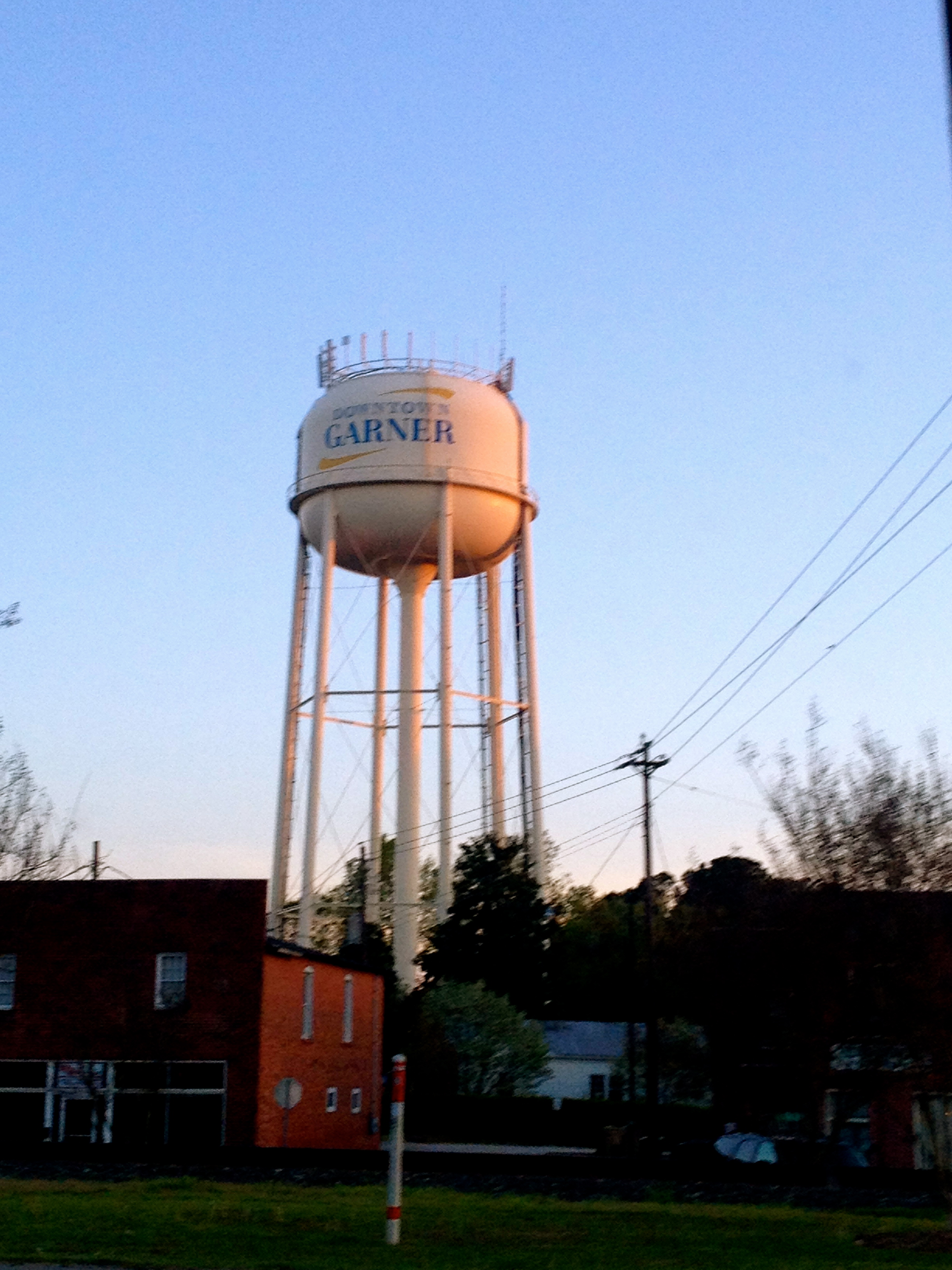 Garner, NC